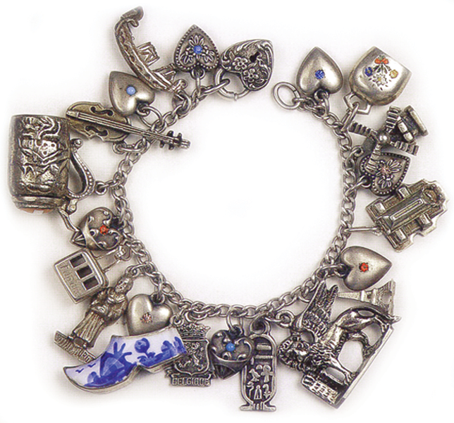 American charm bracelet, with heart-shaped and travel charms.